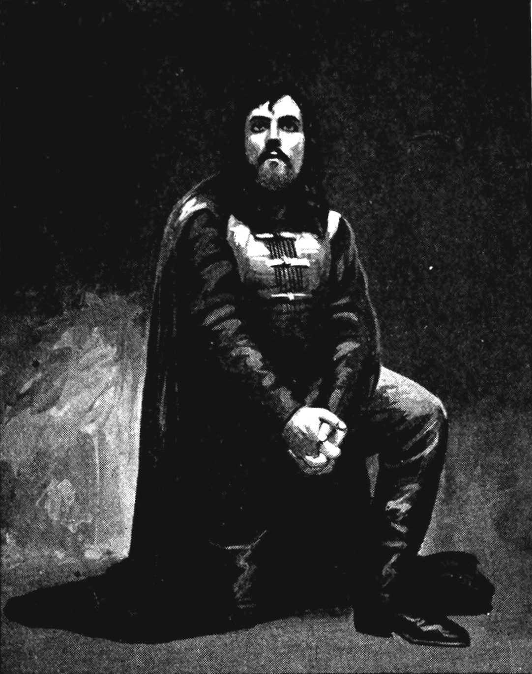 Wagner - Der fliegende Holländer - Maurice Renaud as the Dutchman - Berger Title: The Victrola book of the opera : stories of one hundred and twenty operas with seven-hundred illustrations and descriptions of twelve-hundred Victor opera records Year: 1917 (1910s) Authors: Victor Talking Machine Company Rous, Samuel Holland Subjects: Operas Publisher: Camden, N.J. : Victor Talking Machine Co. Text Appearing Before Image: VICTROLA BOOK OF THE OPERA —FLYING DUTCHMAN The term is past and once again are ended seven long years;The weary sea casts me upon the land.Ha! haughty ocean 1 Text Appearing After Image: p™« renaud as the dutchman Chorus of Maidens:Hum and hum, good wheel, go whirling,Lively, lively, dance around!Spinning thousand threads a-twirling,Let thy pleasant hum resound!My love doth sail the ocean oer; the A little while and thou again wilt bear me! Though thou art changeful, unchanging is mydoom! Daland comes on deck and is astonishedto see the strange ship. He wakes the Steers-man and they hail the stranger, who asksDaland to give him shelter in his home,offering him treasure. The Dutchman:Oh, grant to me a little while thy home,And of thy friendship thou wilt not repent;With treasure brought from every clime and countryMy ship is richly laden: wilt thou bargain? On hearing that Daland has a daughterhe proposes marriage. The simple Nor-wegian is dazzled by such an honor from aman apparently so wealthy, and freely con-sents, provided his daughter is pleased withthe stranger. The wind changes and Dalandsails for his home, the Dutchman promising tofollow at once. ACT II SCEN